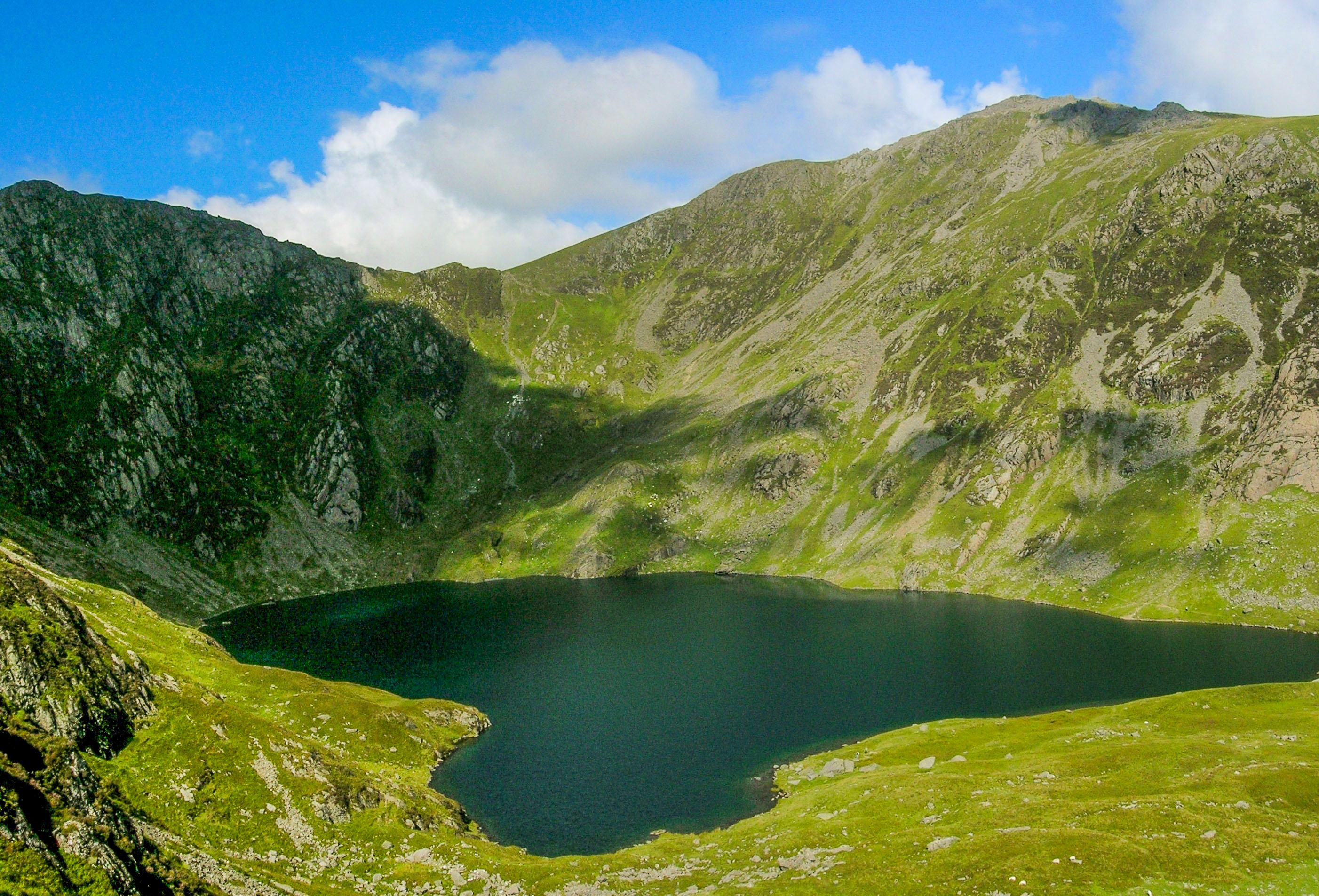 View of Llyn Cau (lake in foreground) and Cadair Idris summit, Snowdonia, UK